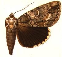 PLATE CXCIII.